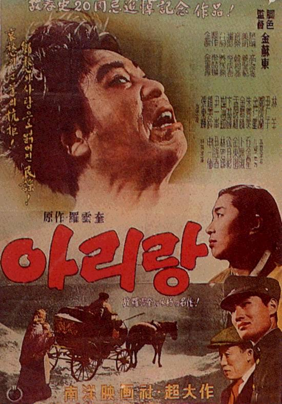 Promotional poster for the Na Woon-gyu (1902 – 1937) film, Arirang (아리랑) (1957). The copyright of this poster once belonged to Na Woon-gyu who was the director, actor, screenwriter, and producer of the film and owner of Na Woon-gyu production. However, 50 years after his death, the poster is now public domain in South Korea and other countries to which the similar copyright would apply. Derived from a digital capture (photo/scan) of the Film Poster/ VHS or DVD Cover (creator of this digital version is irrelevant as the copyright in all equivalent images is still held by the same party). Copyright held by the film company or the artist.